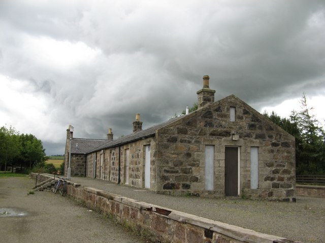 The Formartine and Buchan Way - Maud Station It's going to rain very soon (and it did).